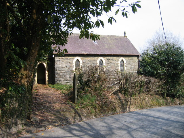 Hen Gapel, Blaenpennal / Old Chapel at Blaenpennal Hen Gapel sydd bellach mewn cyflwr wael / Old Chapel which is now in a poor state of repair.